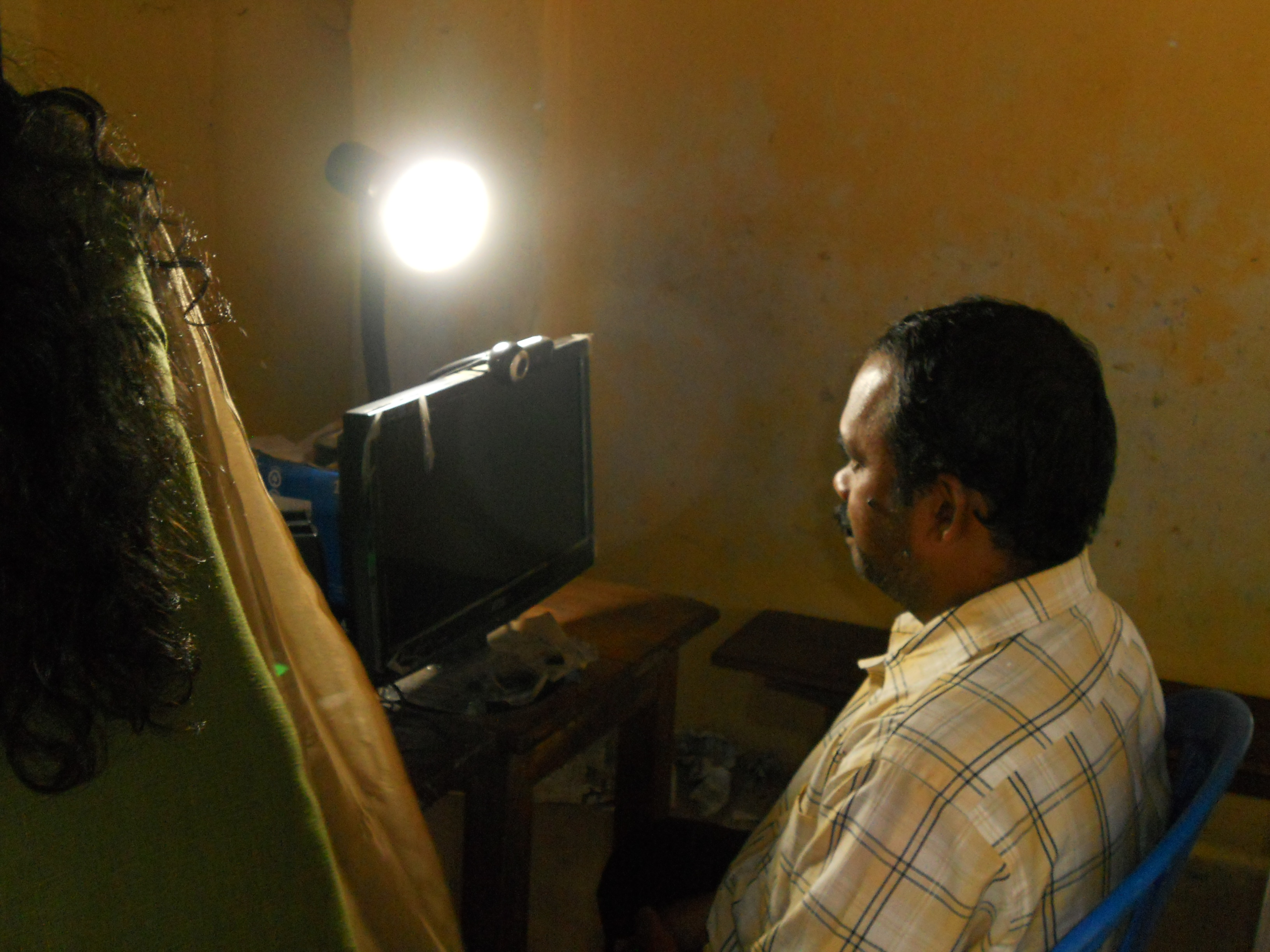 Photographing citizens for Aadhaar,a 12-digit unique number which the Unique Identification Authority of India (UIDAI) will issue for all residents in India.The number will be stored in a centralized database and linked to the basic demographics and biometric information – photograph, ten fingerprints and iris of each individual.